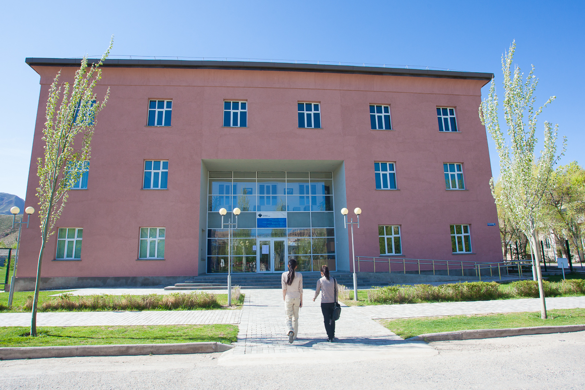 UCA SPCE Schools